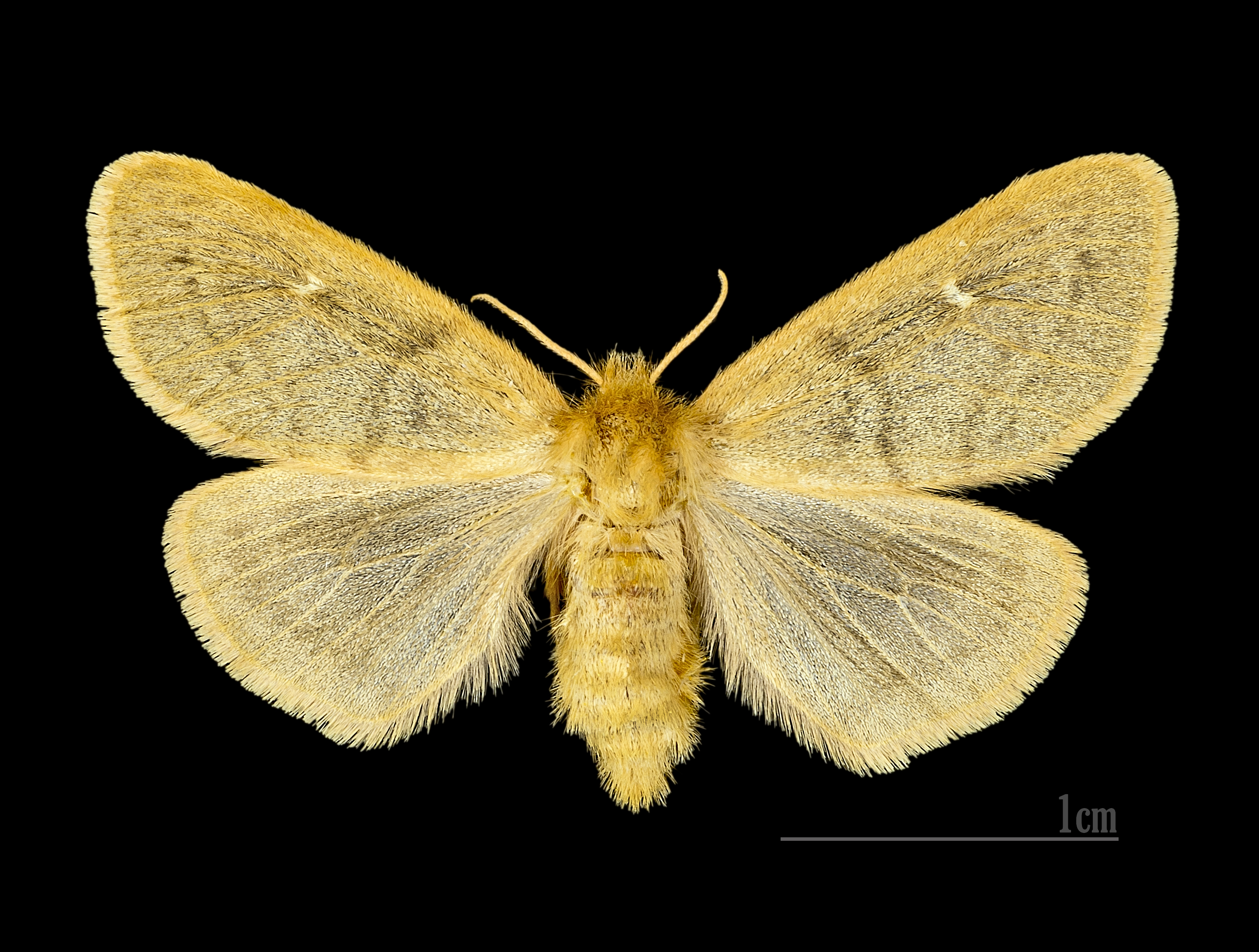 Ocneria rubea. Dorsal side